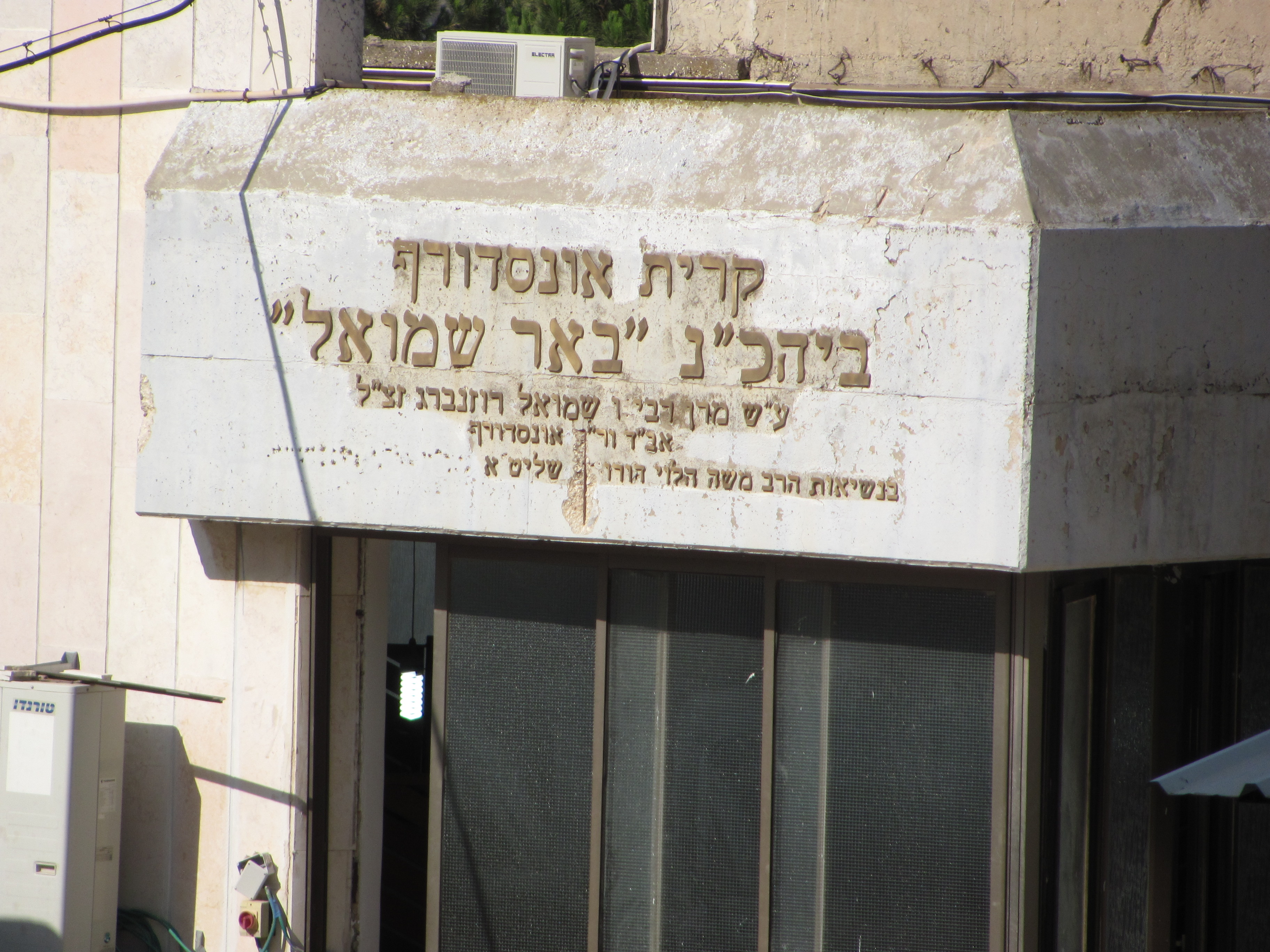 Entrance of Be'er Shmuel Synagogue, Unsdorf, Jerusalem, Israel. Translation of inscription: Kiryat Unsdorf / Be'er Shmuel Synagogue / Established upon the name of our Rabbi, Shmuel Rosenberg / Head of the Rabbinical Court and Head of the Jewish Community of Unsdorf / Under the leadership of Rabbi Moshe Halevi Horowitz